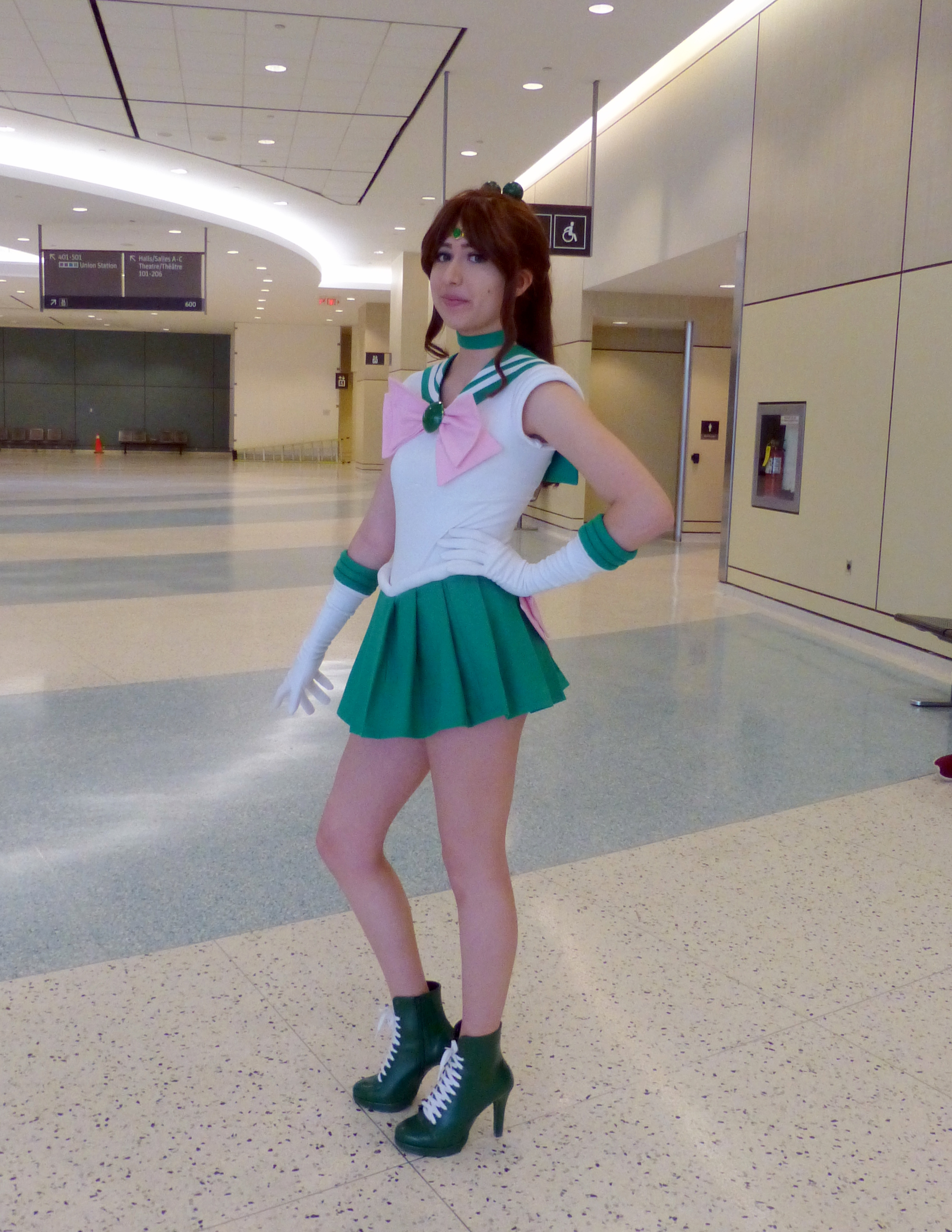 Sailor Jupiter Toronto Comicon 2015